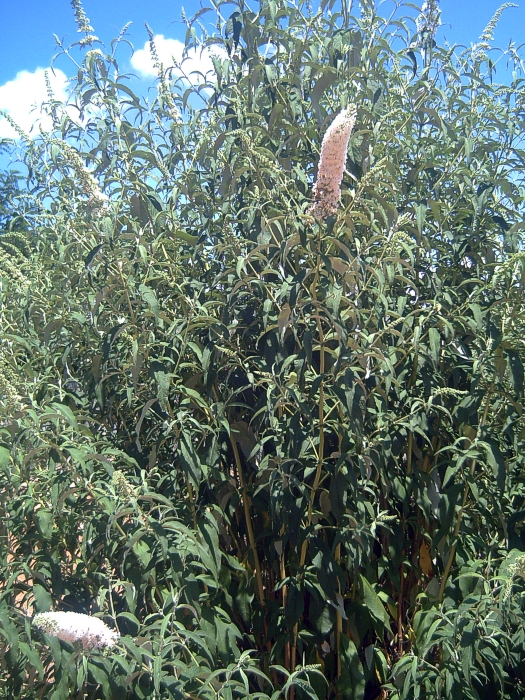 A own work release by Javier martin, picture gathered Dehesa Boyal de Puertollano up, 3 Juni 2006, Puertollano Spain. A white Buddleja davidii.